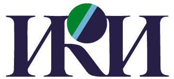 Space Research Institute Logotype